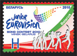 Stamp of Belarus